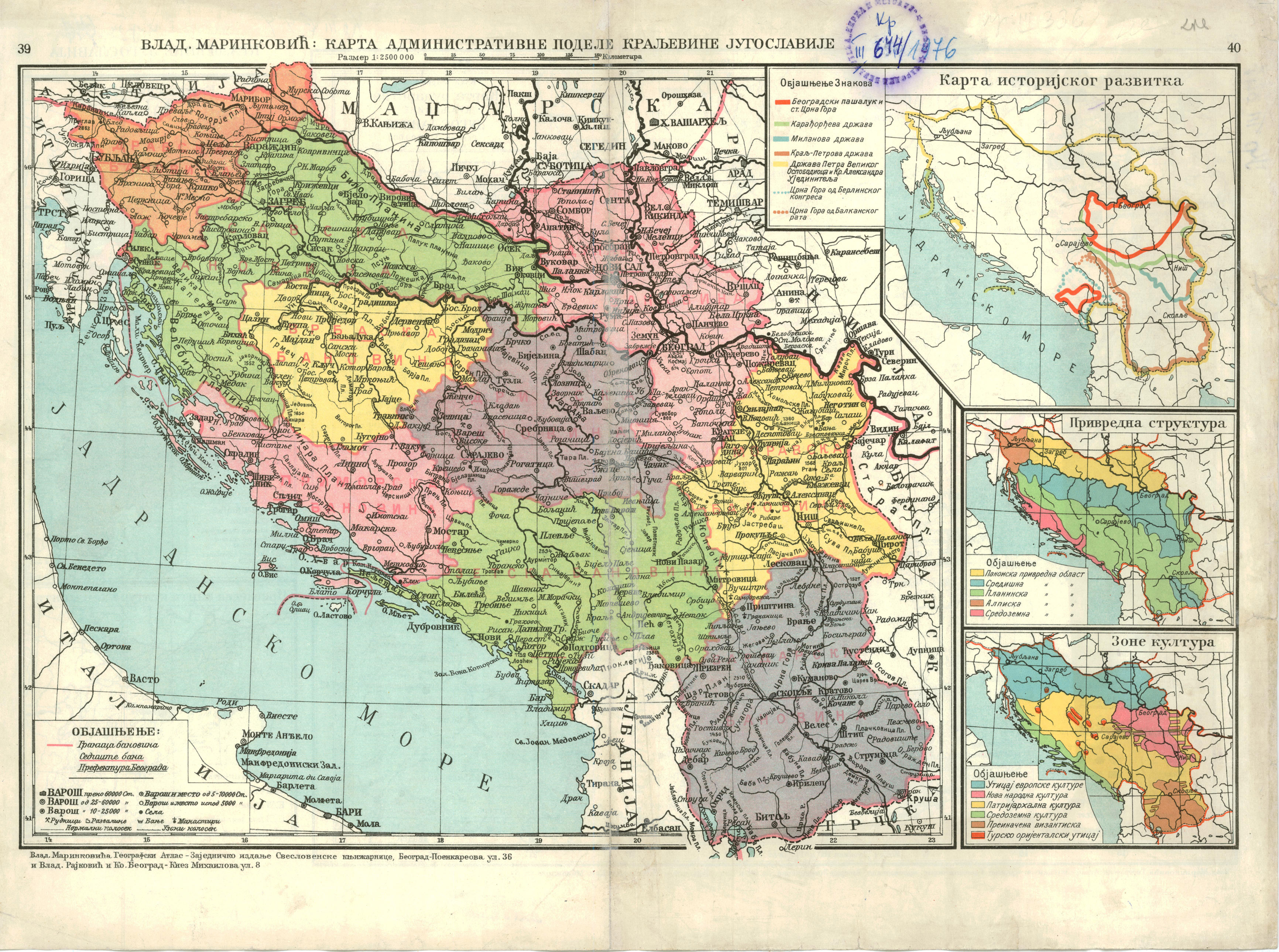 Political map of Yugoslavia showing administrative divisions in 1929.